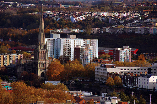 Redcliffe, Bristol. Viewed from the Cabot Tower.